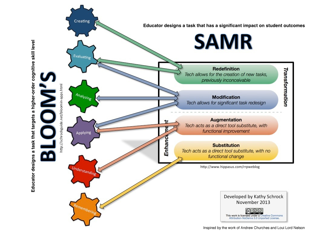 SAMR Modell and Bloom's Educators designs a task and can classify they in Bloom's and SAMR's model